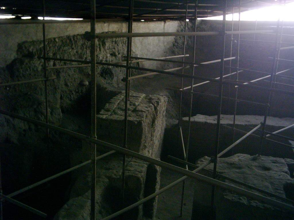 Ecbatana Excavations, Hamedan, Iran